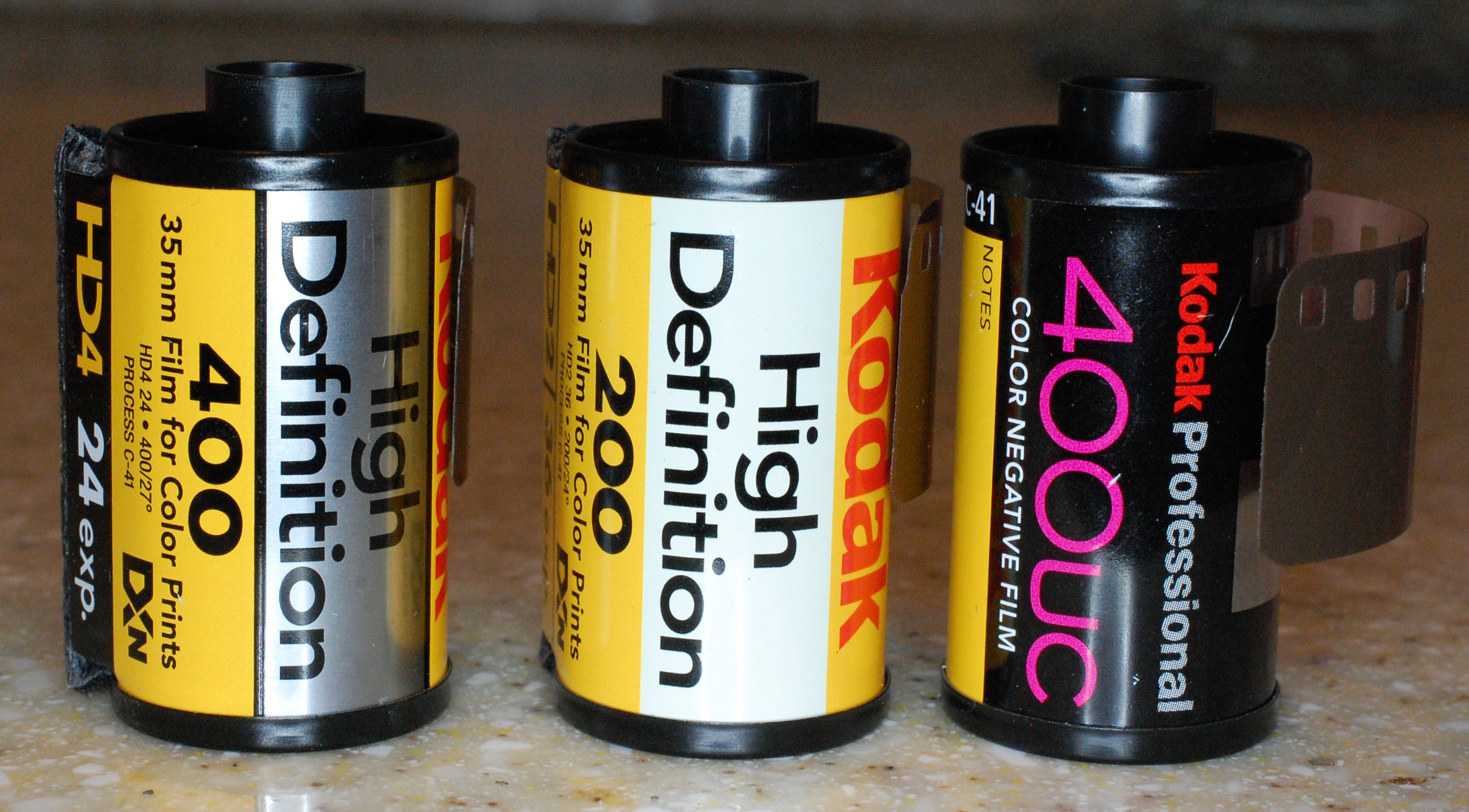 Three types of Kodak film made around 2005.